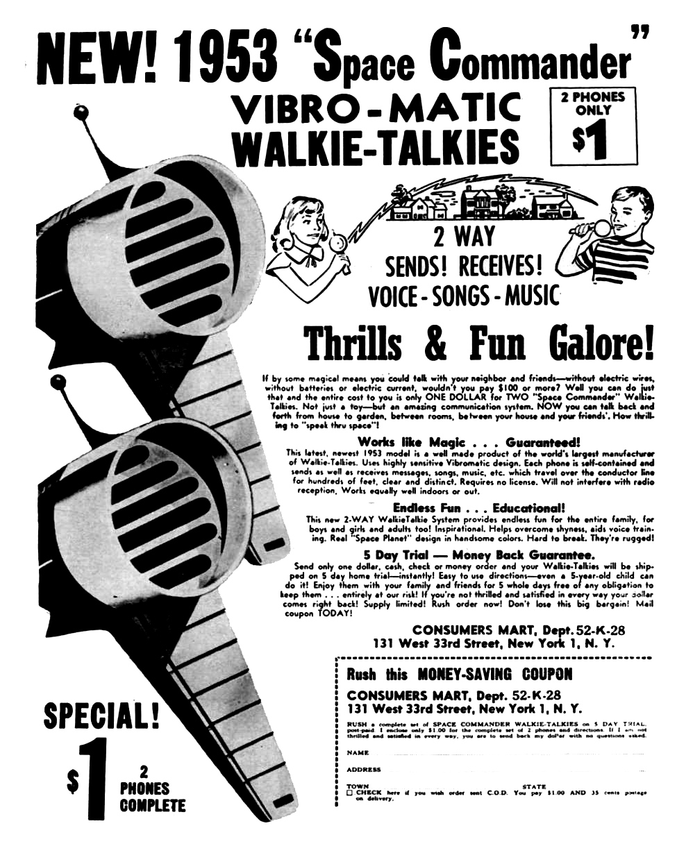 Thrills & Fun Galore with the New 1953 "Space Commander" Vibromatic Walkie Talkie Set!! This "educational aid to voice training" came complete with a five day free trial and a money back guarantee.